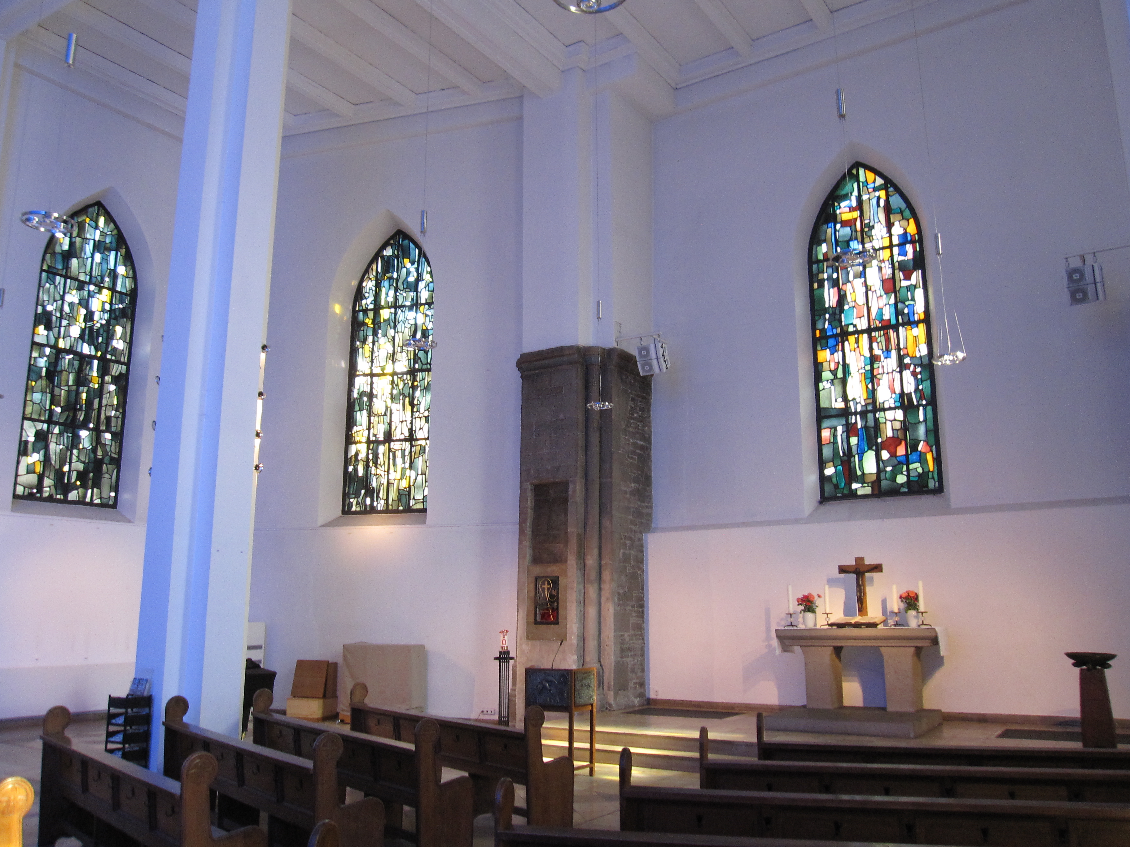 Marktkirche in Essen.